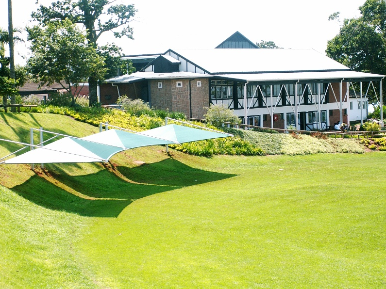 The Ken Mackenzie Center, Thomas More College